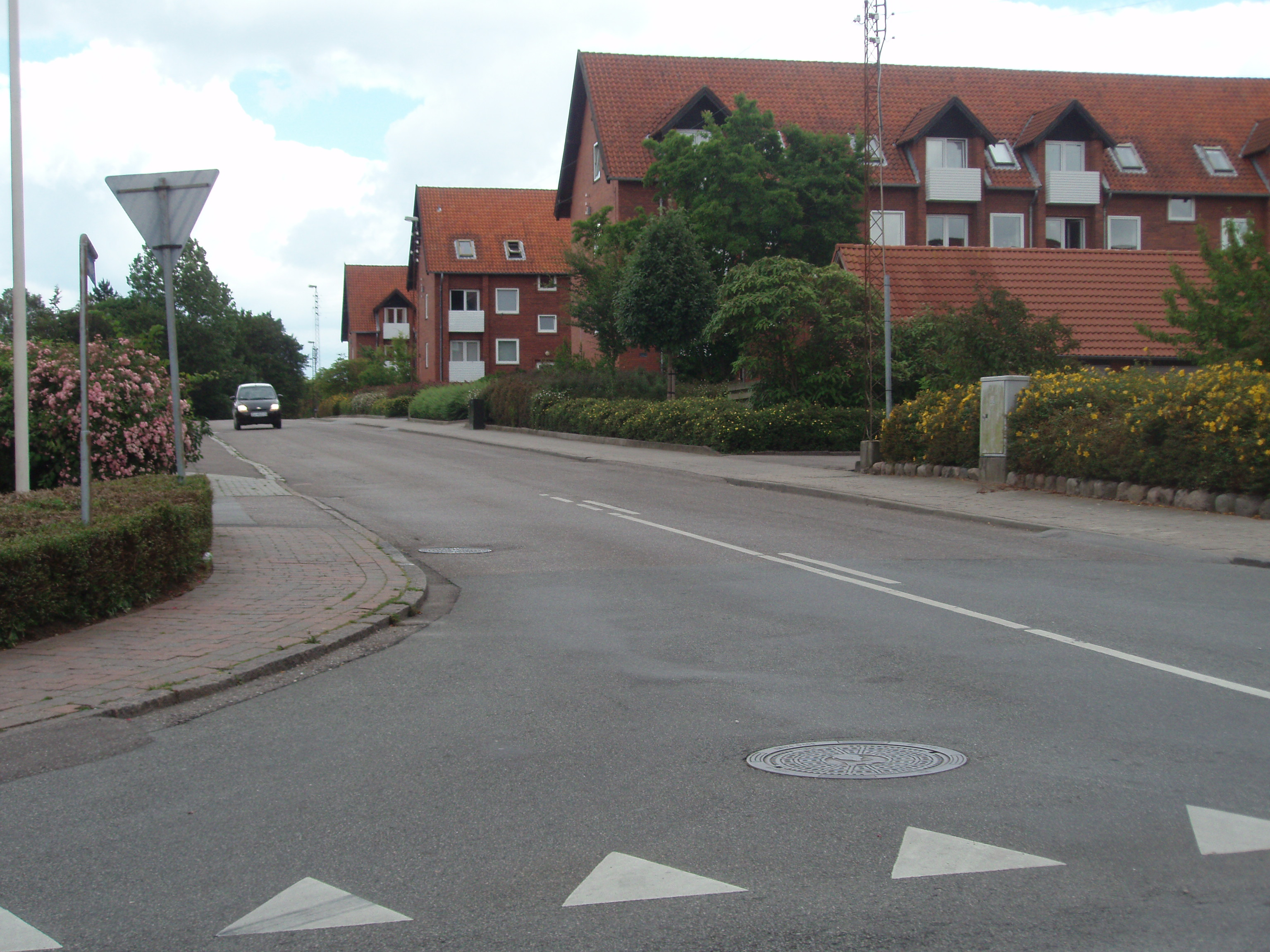 Th. Brorsen street in Nordborg, Denmark